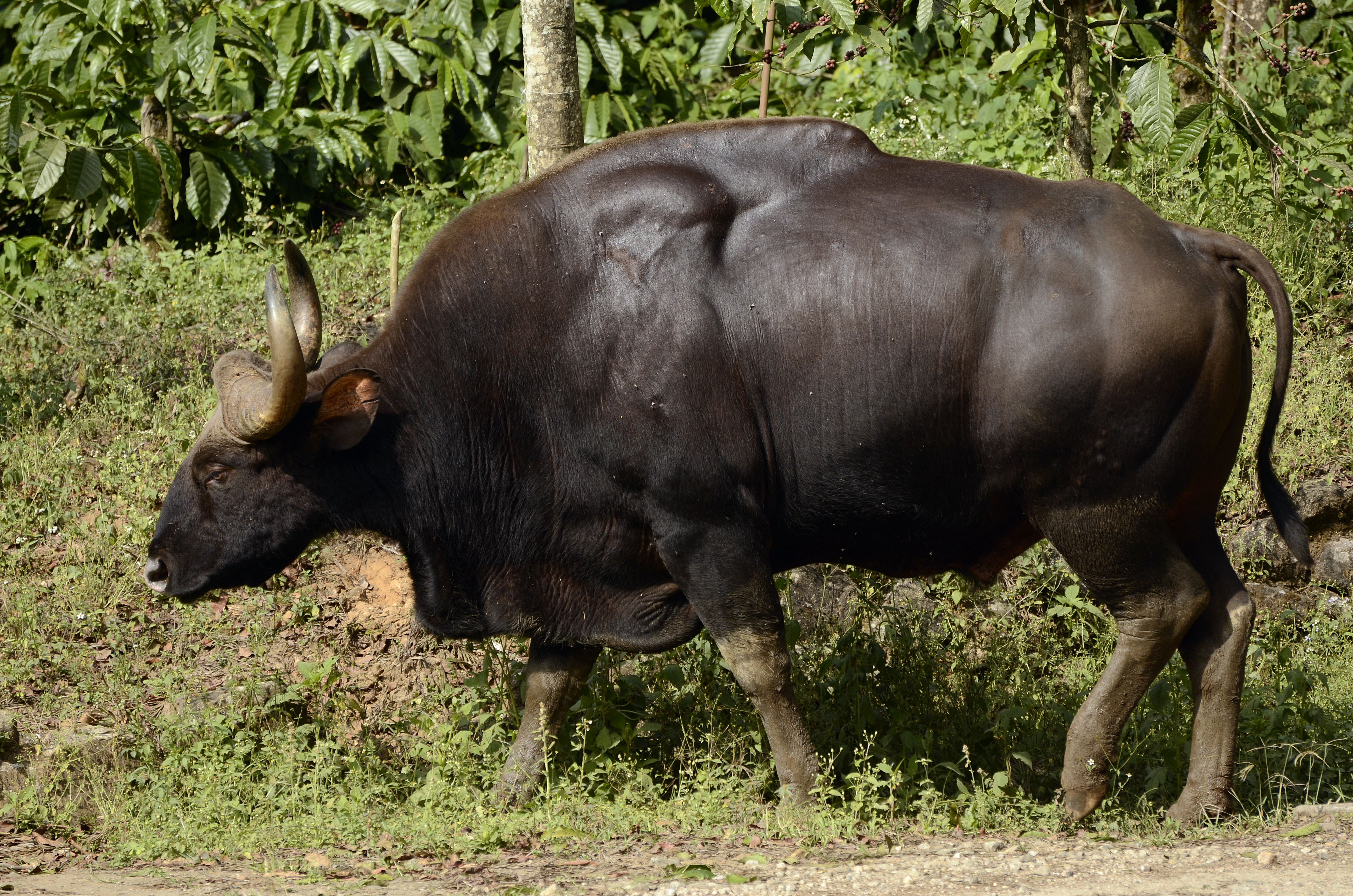 Indian Gaur from anaimalai hills